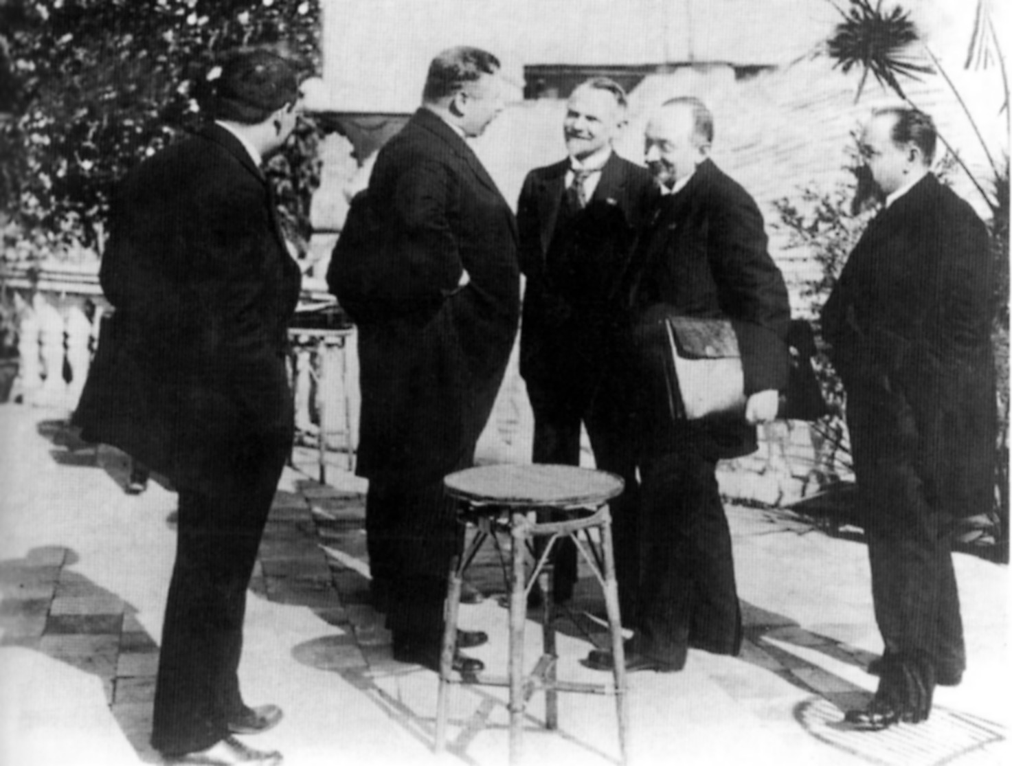 Characters who participated in the Treaty of Rapallo of 1922, which sanctioned the peace treaty between Germany and the Soviet Union. In the photo: Joseph Wirth, Leonid Krasin, Georgy Chicherin and Adolf Joffe.